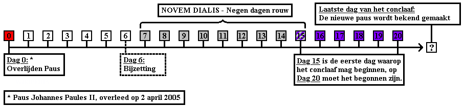 Timeline of events in the Vatican after the death of the Pope in April 2005 (in Dutch).